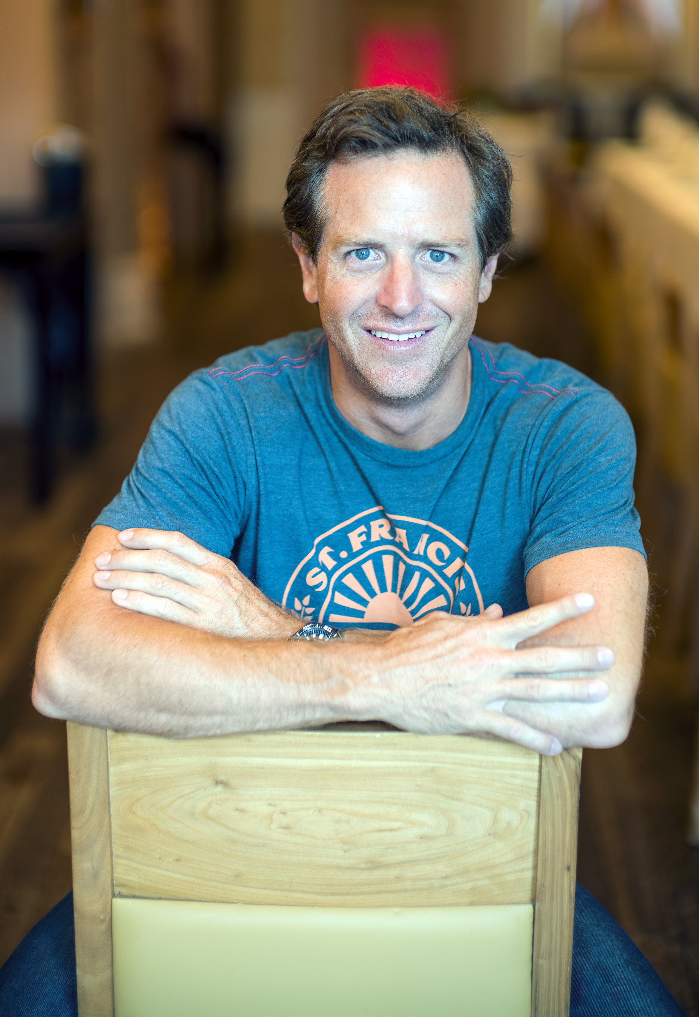 Hugh Howey in San Francisco by Christopher Michel